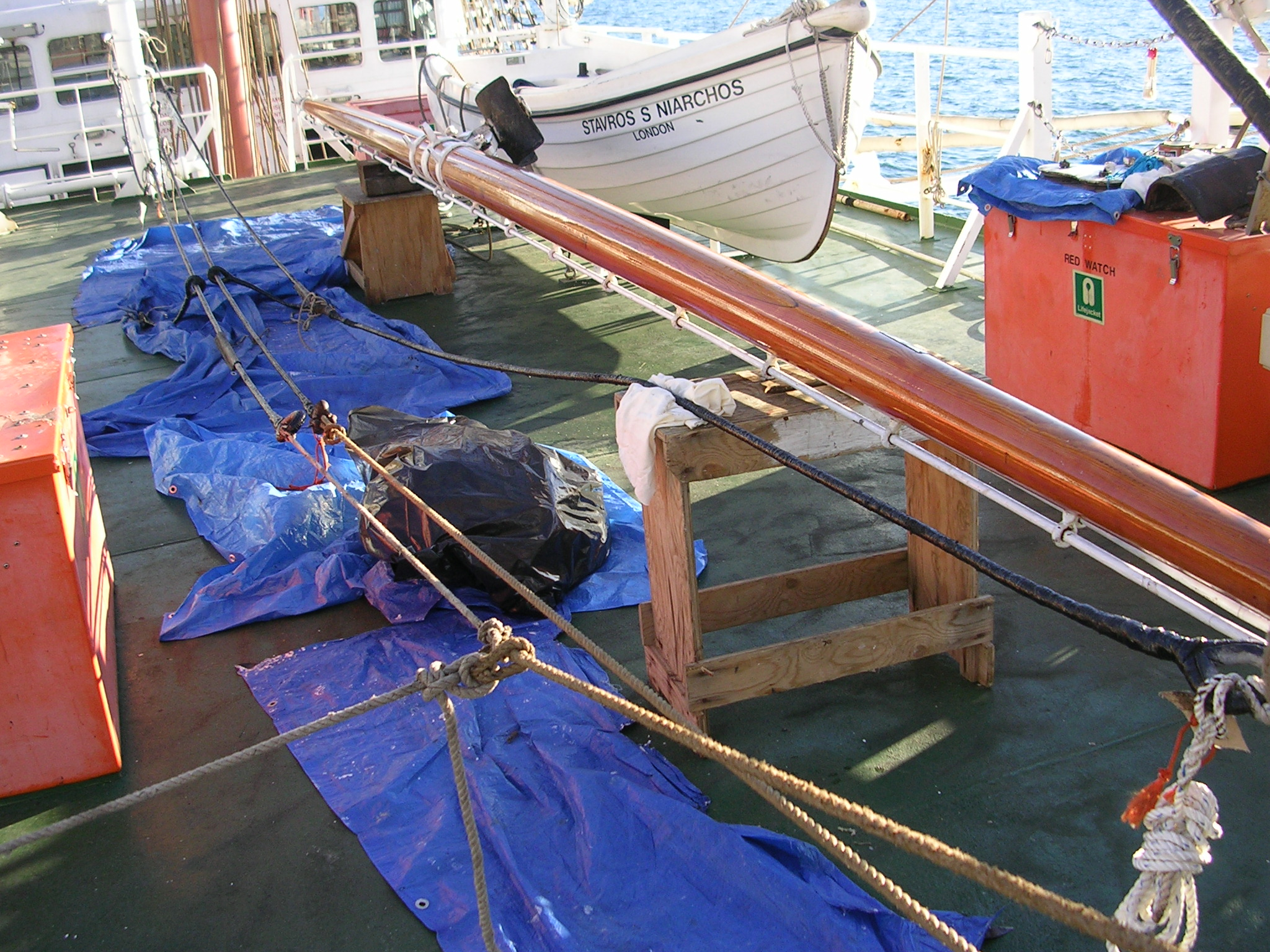 Stavros S Niarchos's main-topgallant yard being sanded down, re-oiled, and metalwork painted. The worming, parcelling and serving on the footropes and lifts is inspected, renewed where necessary, and repainted with blacking. This task was undertaken during a short maintenance period in Gibraltar in November 2006. Photo by Pete Verdon